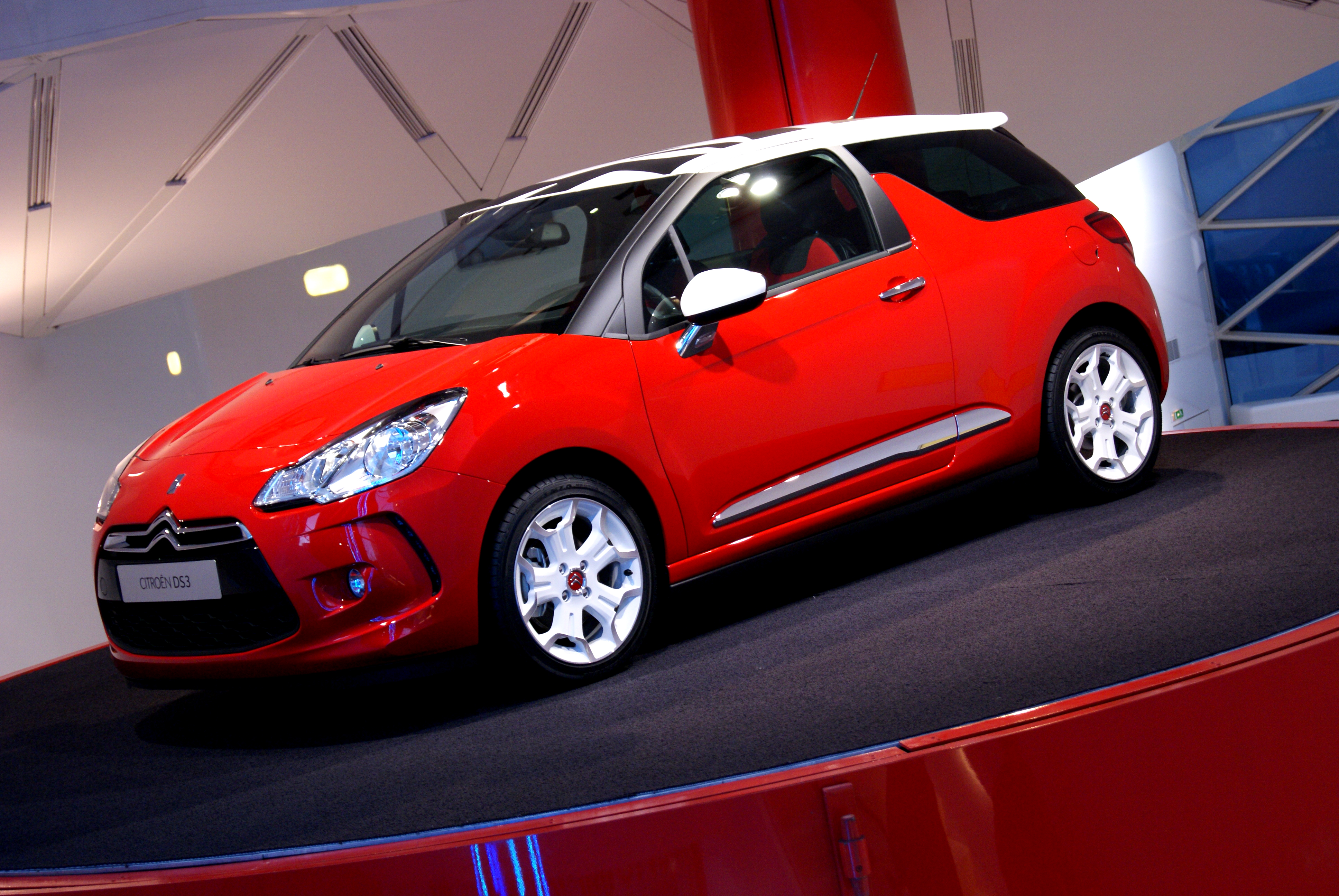 A Citroen DS3.